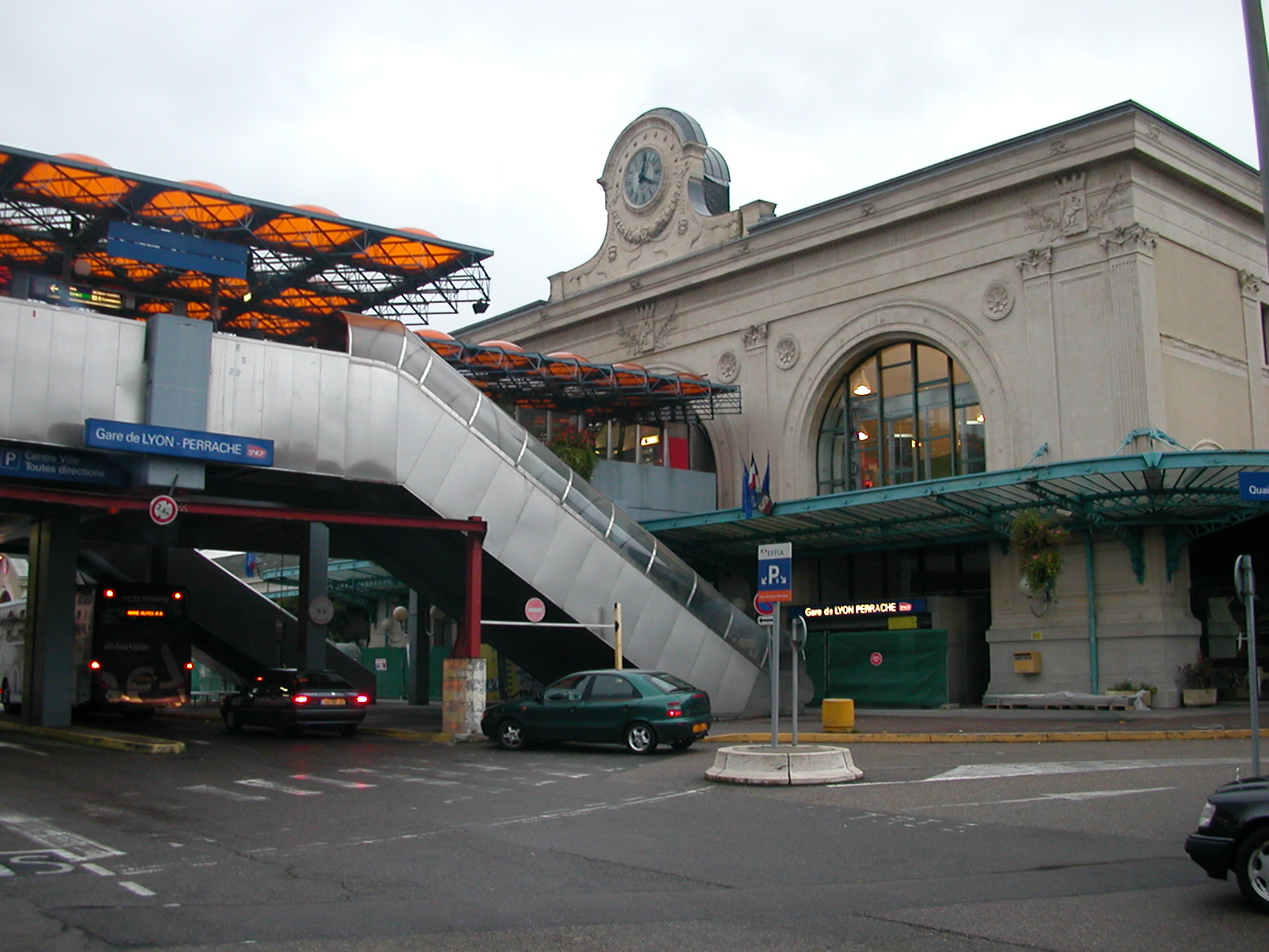 Façade of Perrache station in Lyons